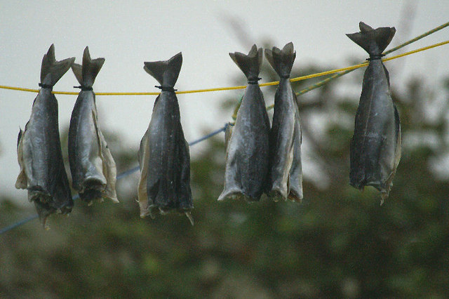 Dried fish, Uyeasound Piltocks, to give them their Shetland name, or Saithe Pollachius virens, were once a staple of the Shetland diet, salted and air-dried, usually by being hung on the washing-line, as here. The resultant food is an acquired taste - the late Bobby Tulloch got the classic photo of fish drying on the line beside drying socks, with the comment that many people thought the socks tasted better. This explains why fish drying on the line are now a rare sight.